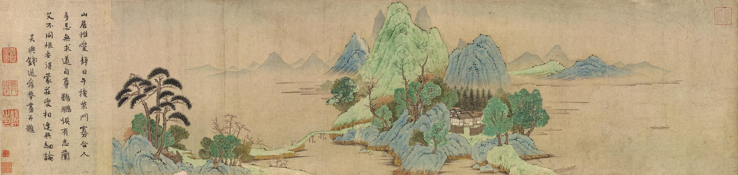 Qian Xuan. Mountain Hermitage, 29,6x98,7cm, Palace Museum, Beijing.